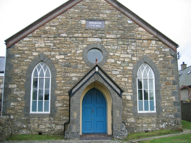 Rehoboth Chapel, Llanbedrog This chapel, with the plaque REHOBOTH t.w. 1871 is further up the side road than the slightly earlier Peniel Chapel.